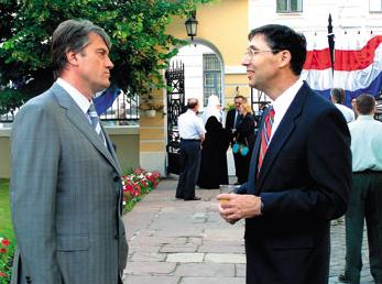 Ambassador Herbst meets with Viktor Yuschenko at a US Independence Day event.